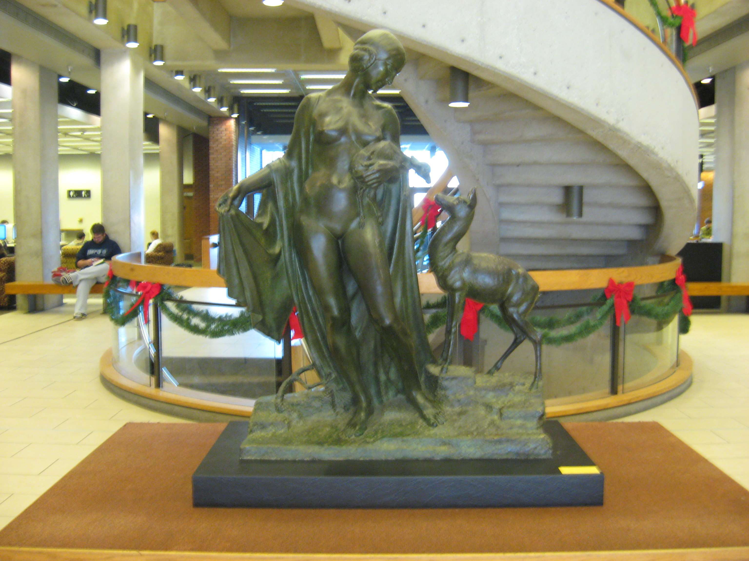 This file is a photo of the sculpture "Forest Idyl," by Albin Polasek. It is the one on display in the Bracken Library at Ball State University in Muncie, Indiana.